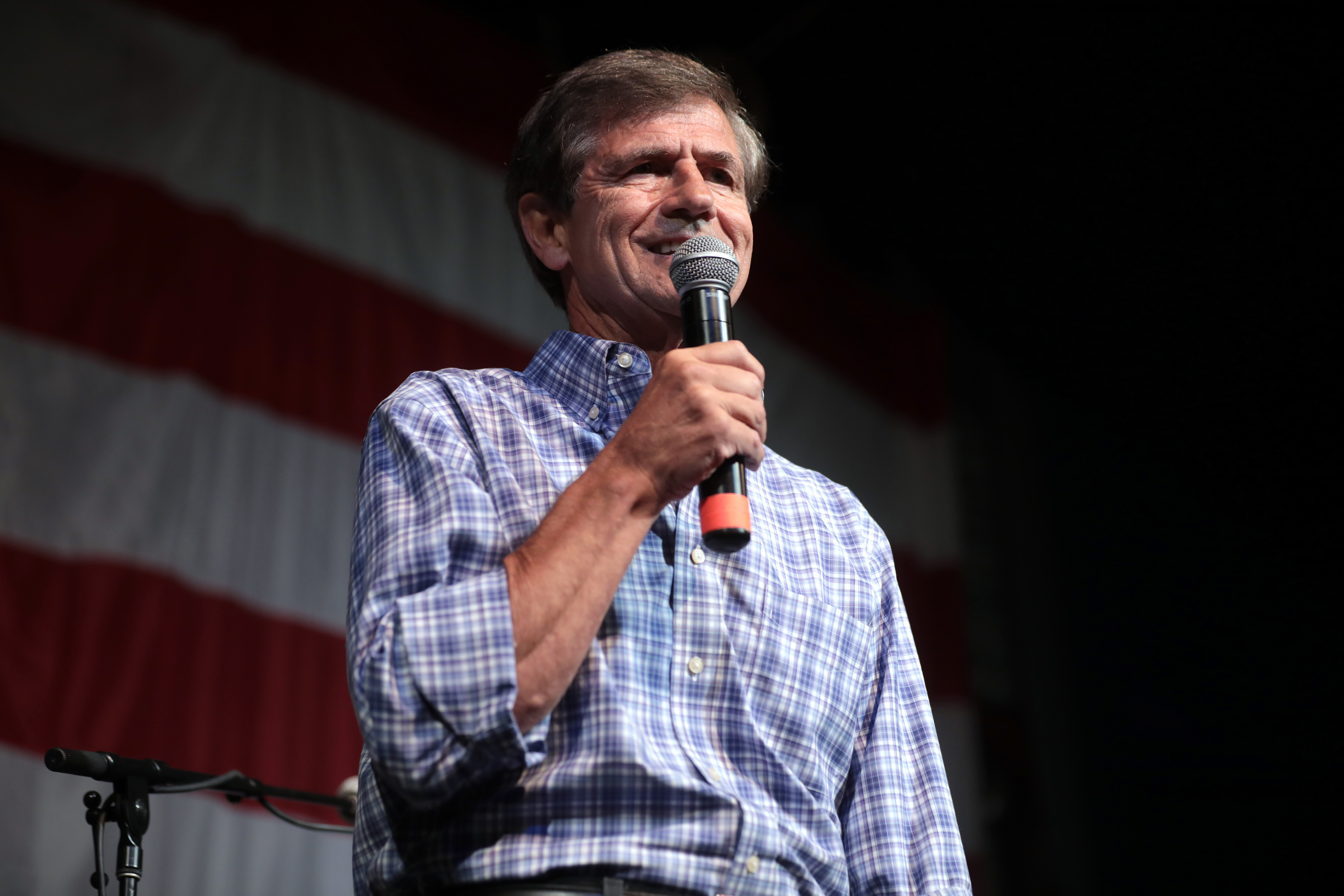 Former U.S. Congressman Joe Sestak speaking with attendees at the 2019 Iowa Democratic Wing Ding at Surf Ballroom in Clear Lake, Iowa.